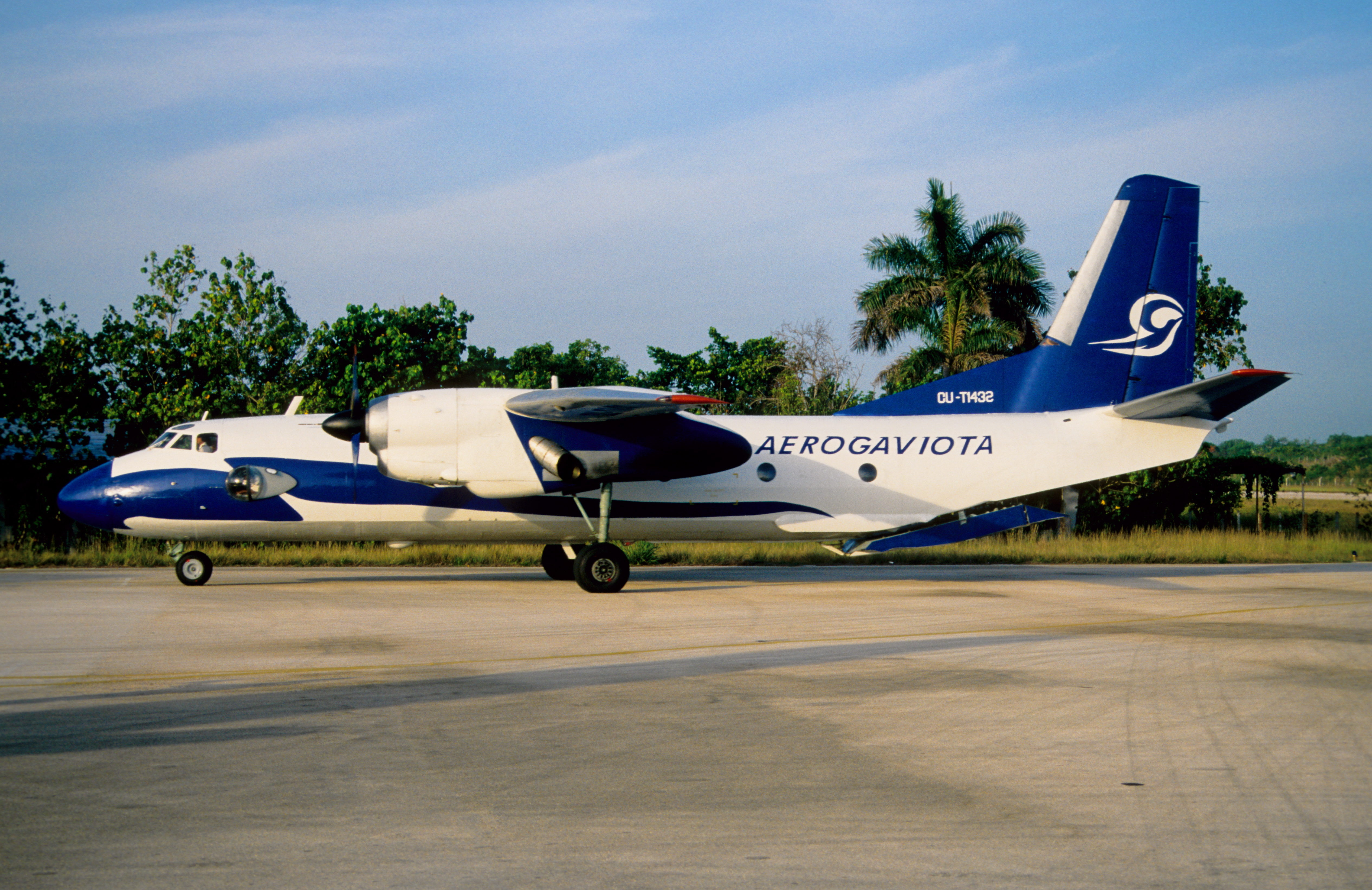 My only ever flight in an Antonov - Playa Baracoa - Cayo Largo del Sur...I was happy to sit next to one of the few window seats...